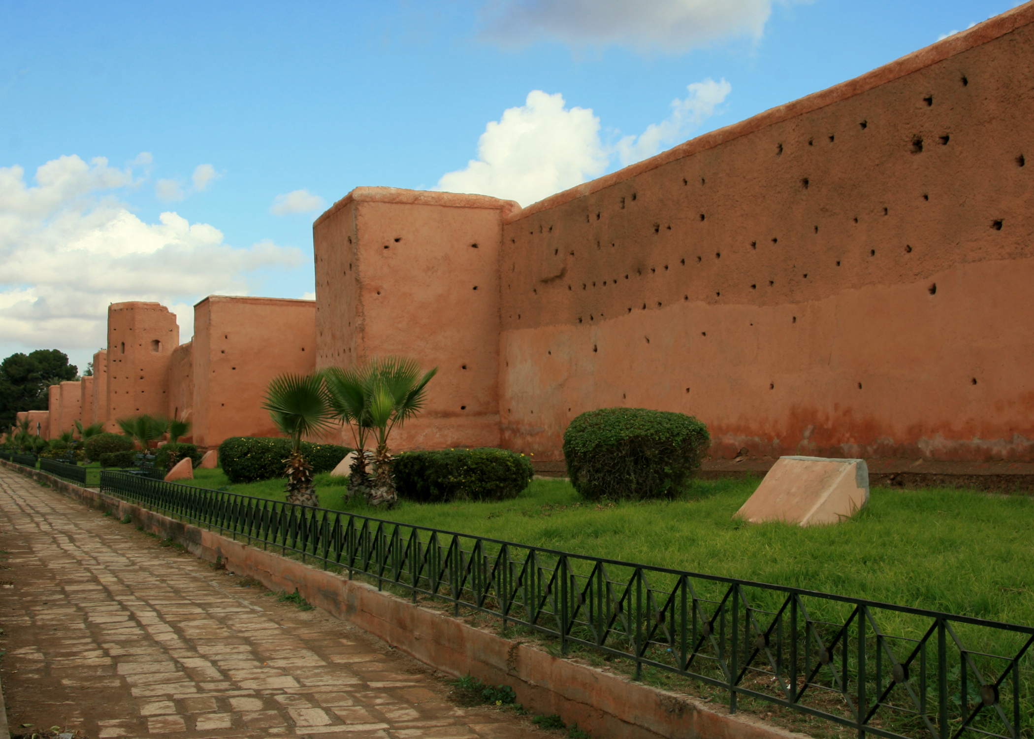 This ancient wall protected the old city of Marrakech in Morocco. It is today known as the Medina of Marrakech and has been designated a UNESCO world heritage site.